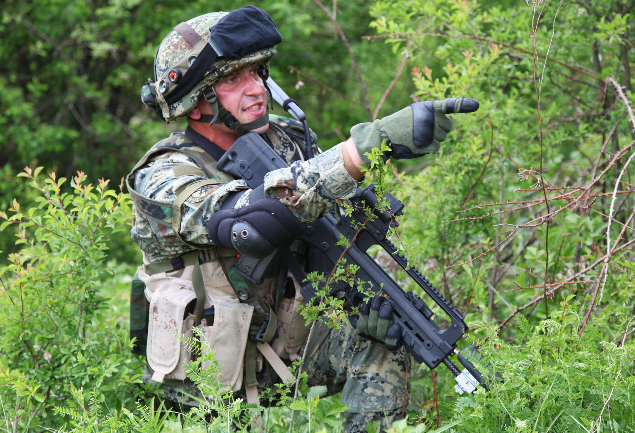 A Croatian soldier from 1st Platoon, 1st Company, Tiger Battalion, gives direction after encountering contact from the opposing force as he and his platoon conduct a movement to contact exercise during the Immediate Response 2012 (IR12) training event held in Slunj, Croatia on Tuesday, May 29, 2012. IR12 is a multinational tactical field training exercise that will involve more than 700 personnel primarily from the U.S. Army Europe’s 2nd Cavalry Regiment and Croatian armed forces, with contingents from Albania, Bosnia-Herzegovina, Montenegro and Slovenia. Macedonia and Serbia will send observers to the exercise. The exercise is a part of USEUCOM's joint training and exercise program designed to enhance joint and combined interoperability between the U.S. Army, U.S. Air Force, Croatian Armed Forces and partner nations, and will help prepare participants to operate successfully in a joint, multinational, interagency, integrated environment. (U.S. Army photo by SPC Lorenzo Ware/Released)